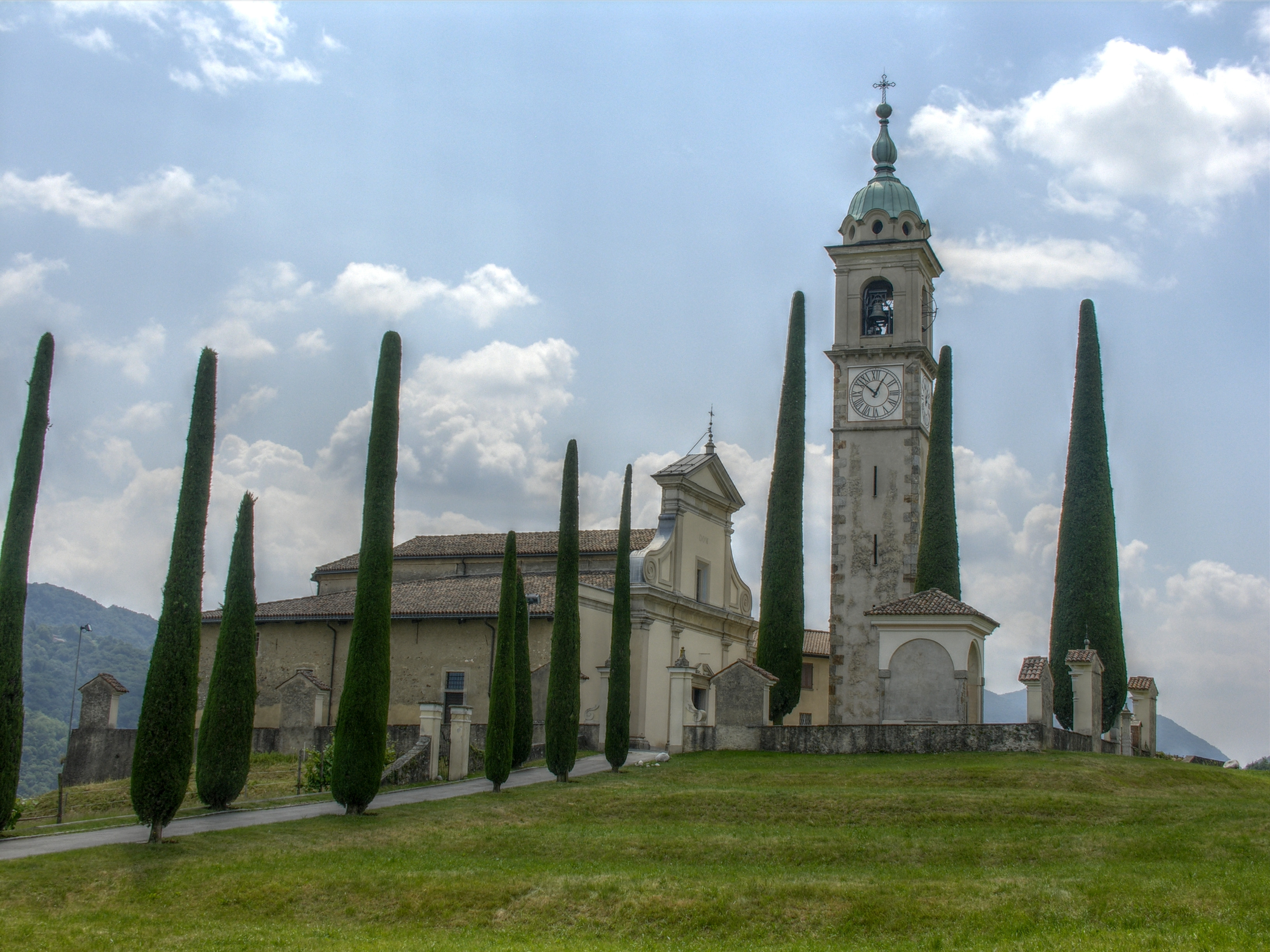 Collina d'Oro, Tessin, Switzerland - The Sant'Abbondio church - External view